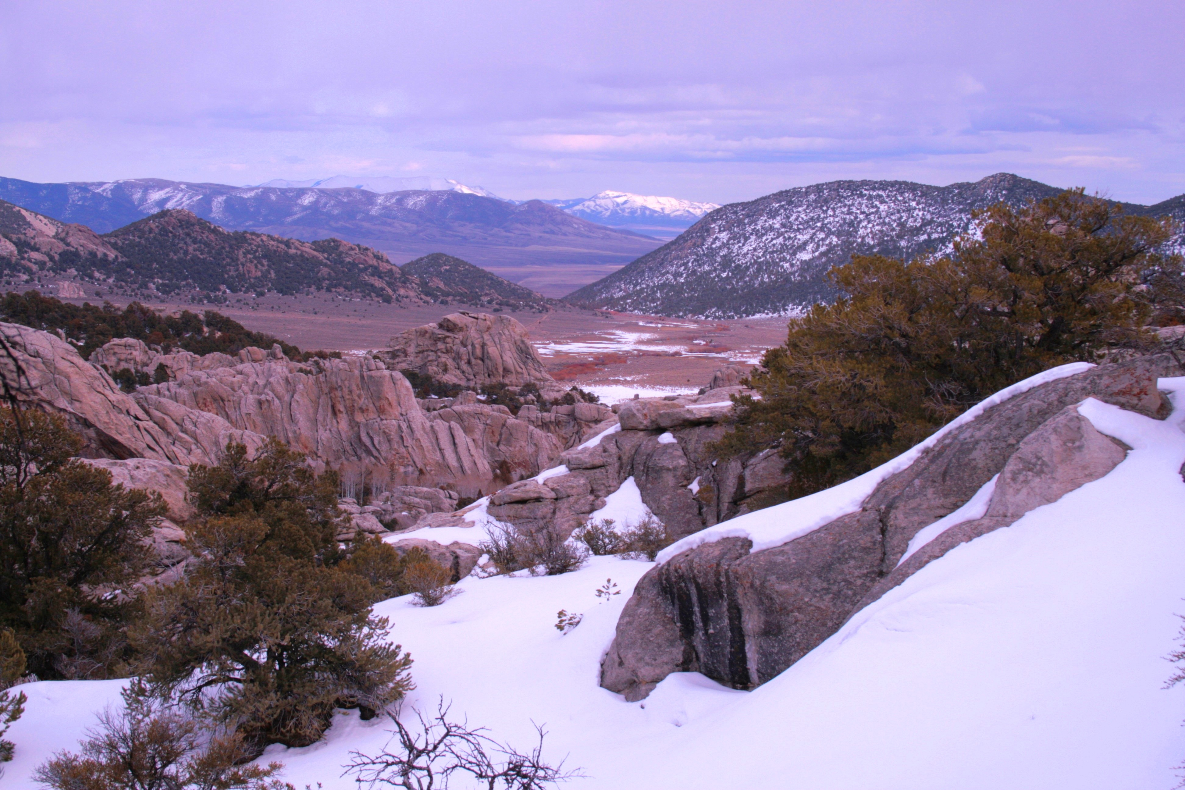 The City of Rocks National Reserve in Idaho looking east to the Jim Sage Mountains at left in background and Black Pine Mountains snowcapped in far background.